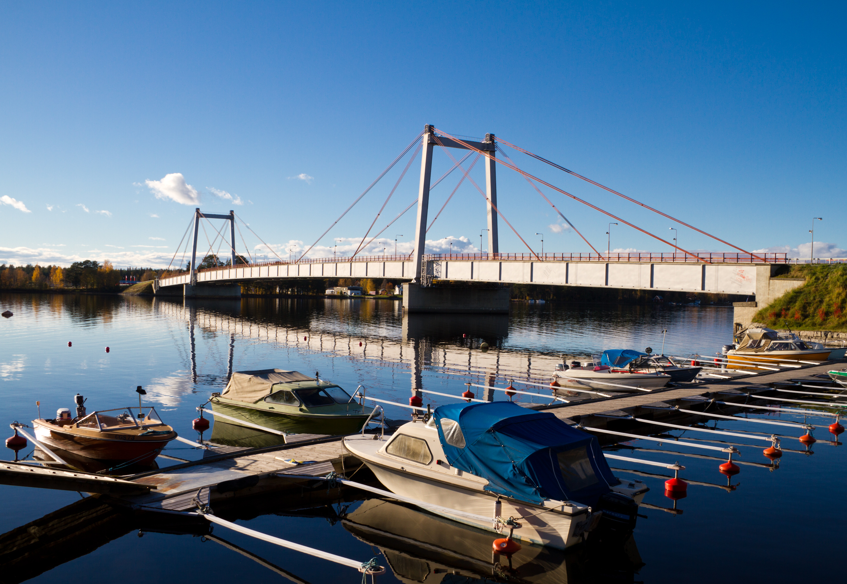 Strömsund bridge (Strömsundsbron), Strömsund, Jämtland, Sweden. View from east.